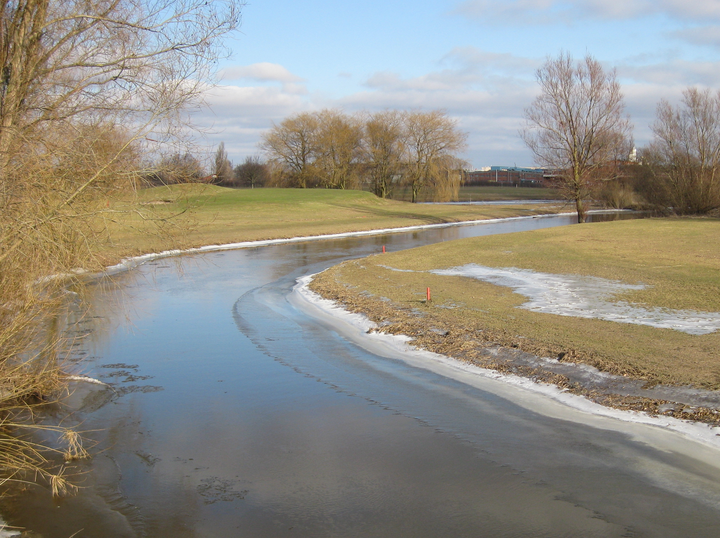 Sege å, stream in Skåne, Sweden